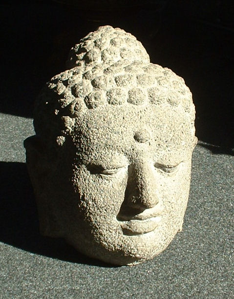 face of Buddha (sculpture from Borobodur)